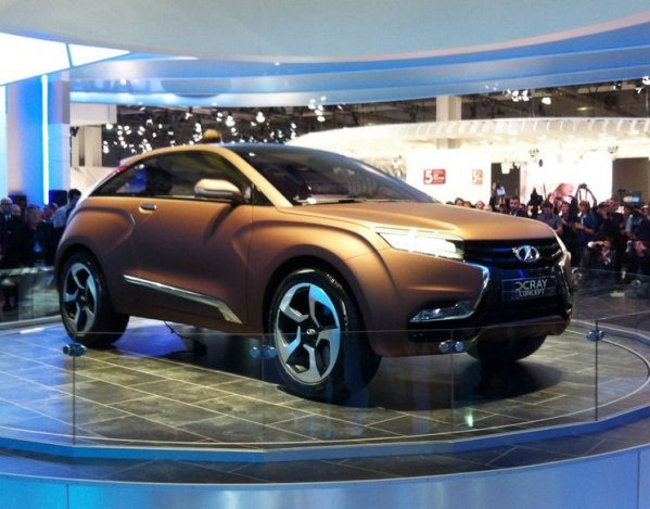 Lada XRAY, The Moscow international automobile salon 2012